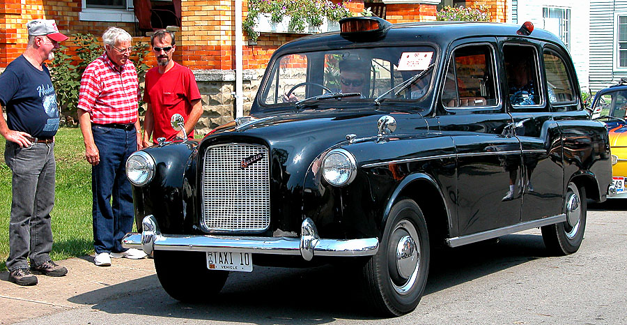 A 1970 Austin attracted high interest in Peebles, Ohio.